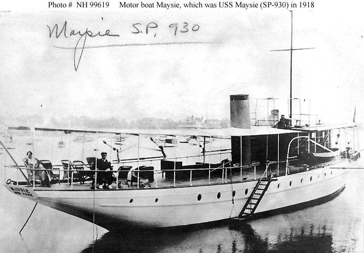 The private motor yacht Maysie sometime prior to her United States Navy service as the patrol vessel